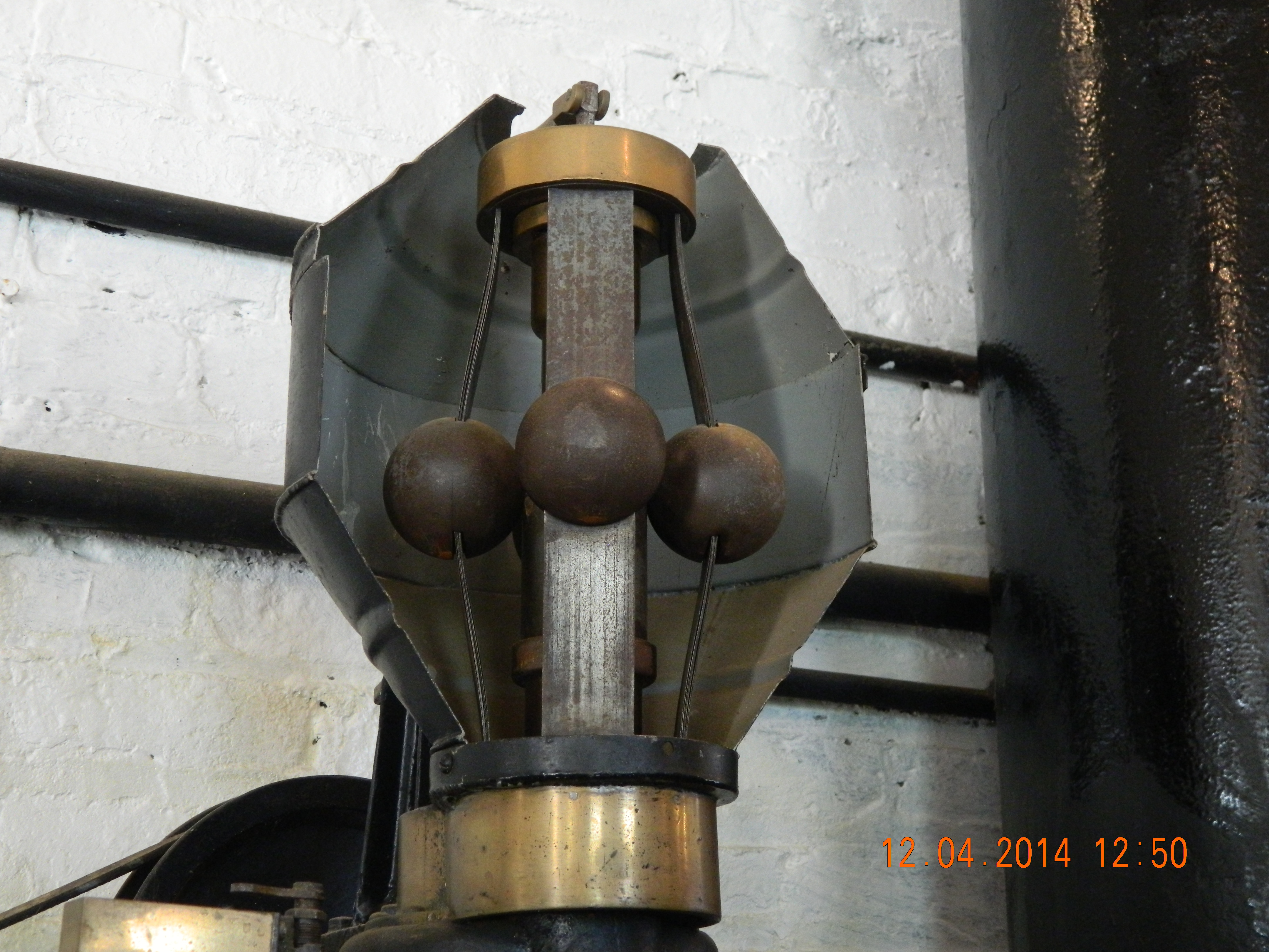 Rotating Armature Lombard Governor Flyballs